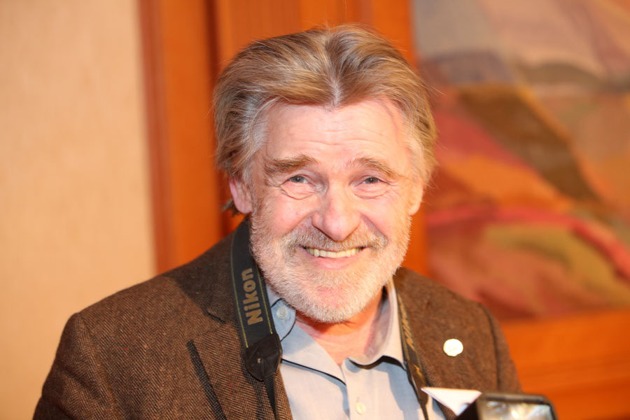 Prof. Helmut Zobl, the artist making the statue for the Schumpeter Preis